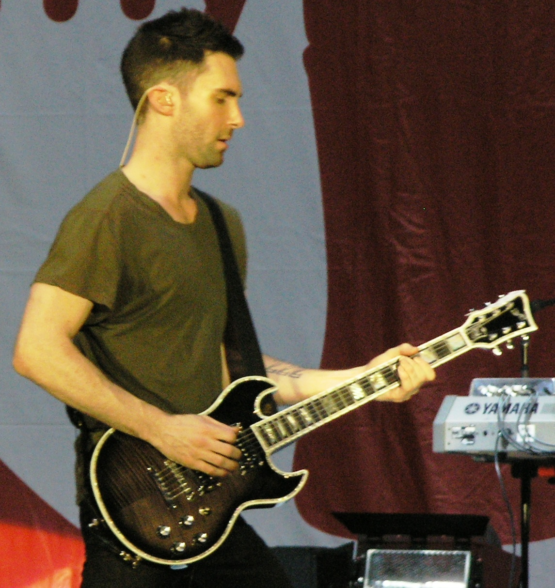 Taken during MyCokeFest at Centennial Olympic Park in Atlanta First Act Maroon 5 Adam Levine Avalon First Custom Double Cutaway (?)